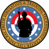 STTC Logo